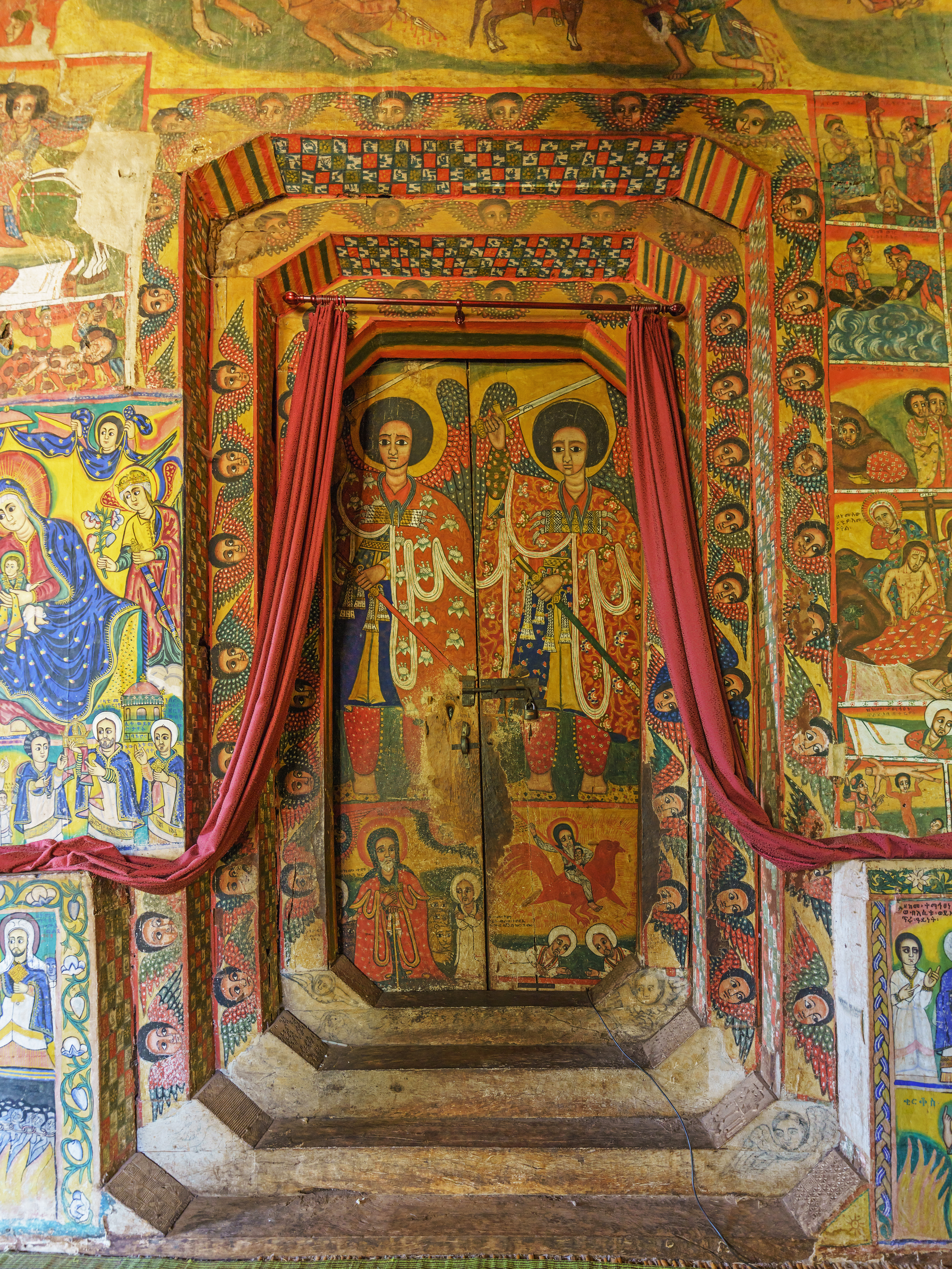 Ura Kidane Mihret Monastery – Lake Tana near Bahir Dar, Ethiopia